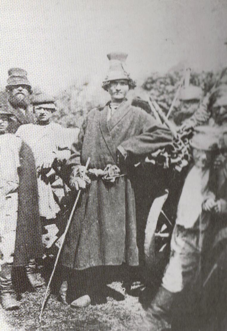 Photograph of Russian peasant/worker